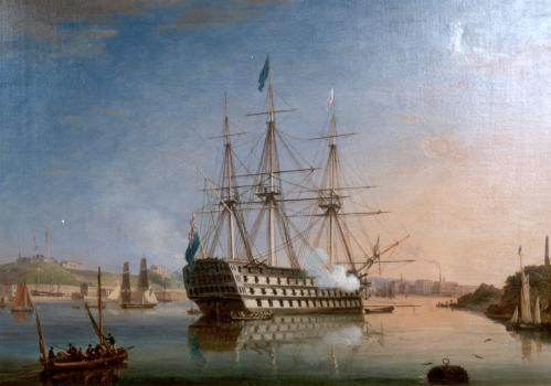 HMS San Josef